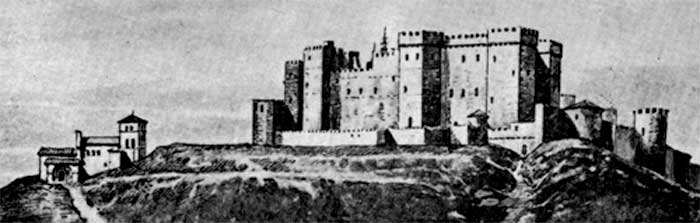 Back facade of the intact Castle of Burgos and the church of Santa María La Blanca. 16th engraving.